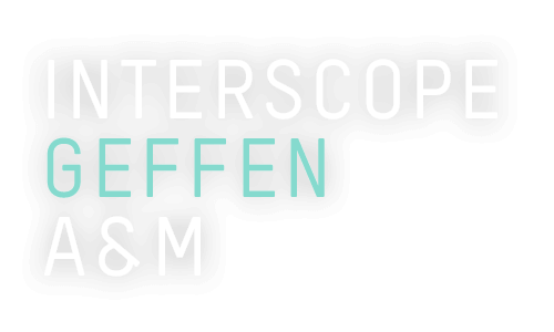 interscope geffen a&m official logo